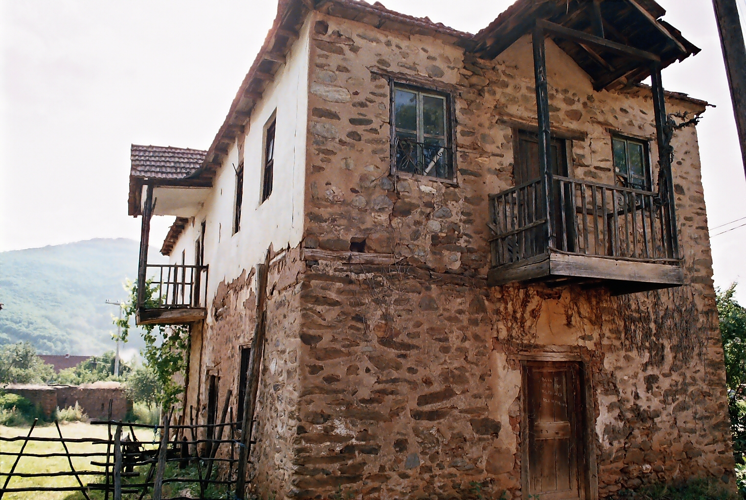 Stari kuki